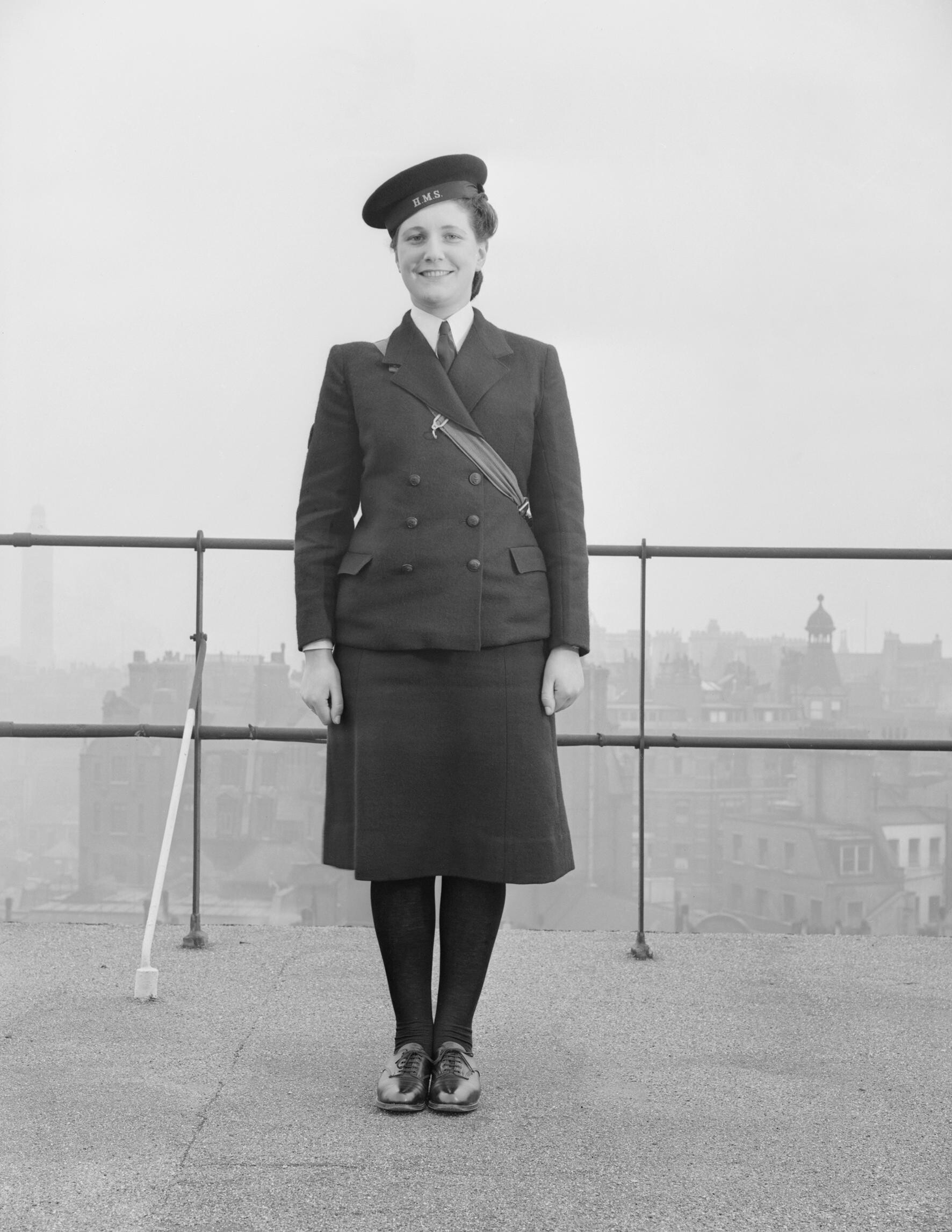 The Correct Angle at Which the New Wrns Hat Is To Be Worn. - Photo is of Mr's Rust